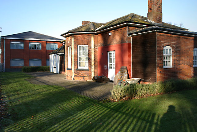 The old station building This was the original London and Birmingham Railway building at Hampton and dates from 1839. The site is now a small industrial estate.